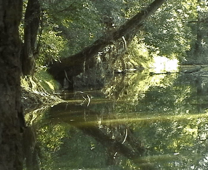 Original proved river Olšava behind Uherský Brod